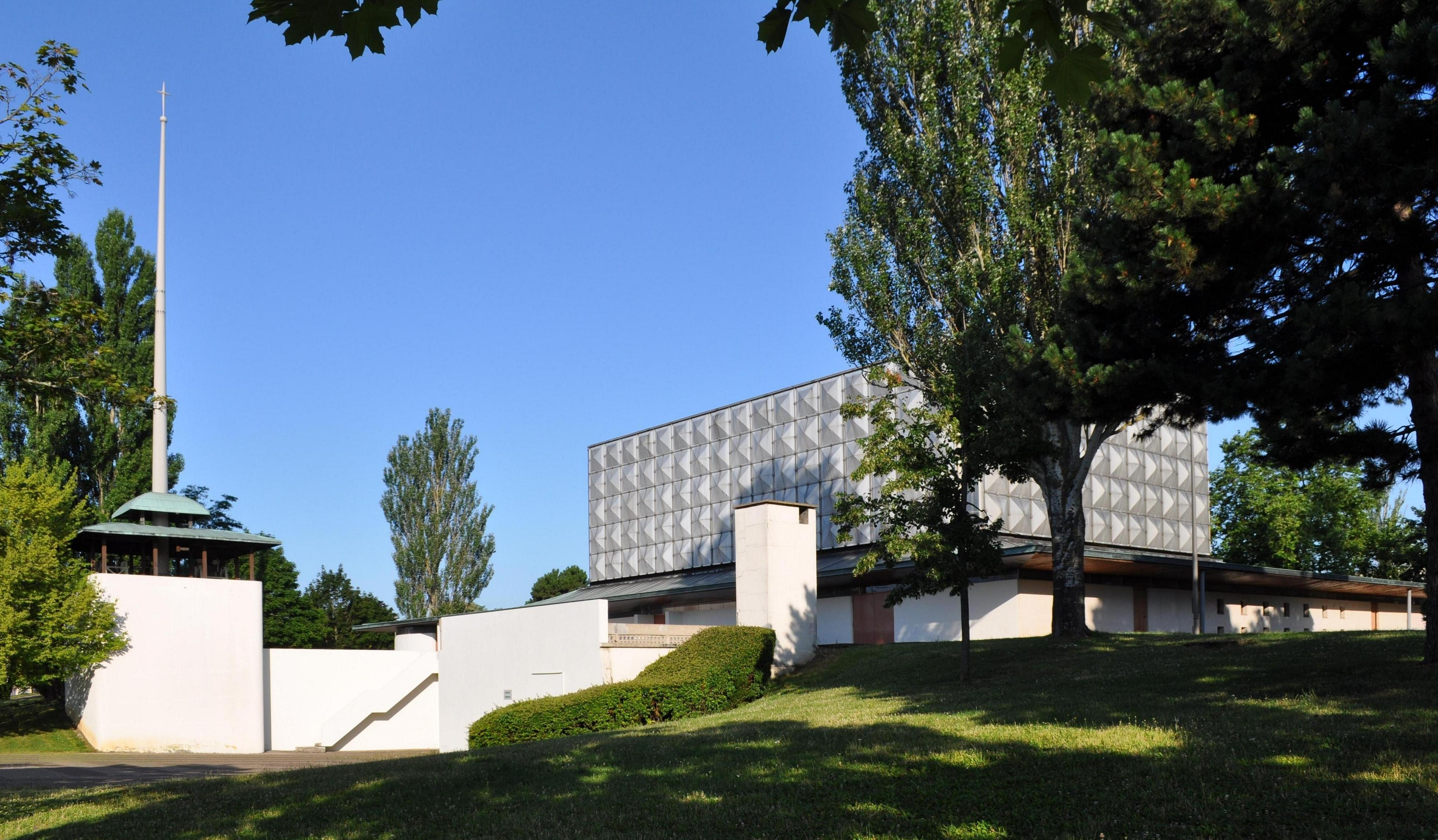 Sainte-Bernadette Church in Dijon (Côte-d'Or).